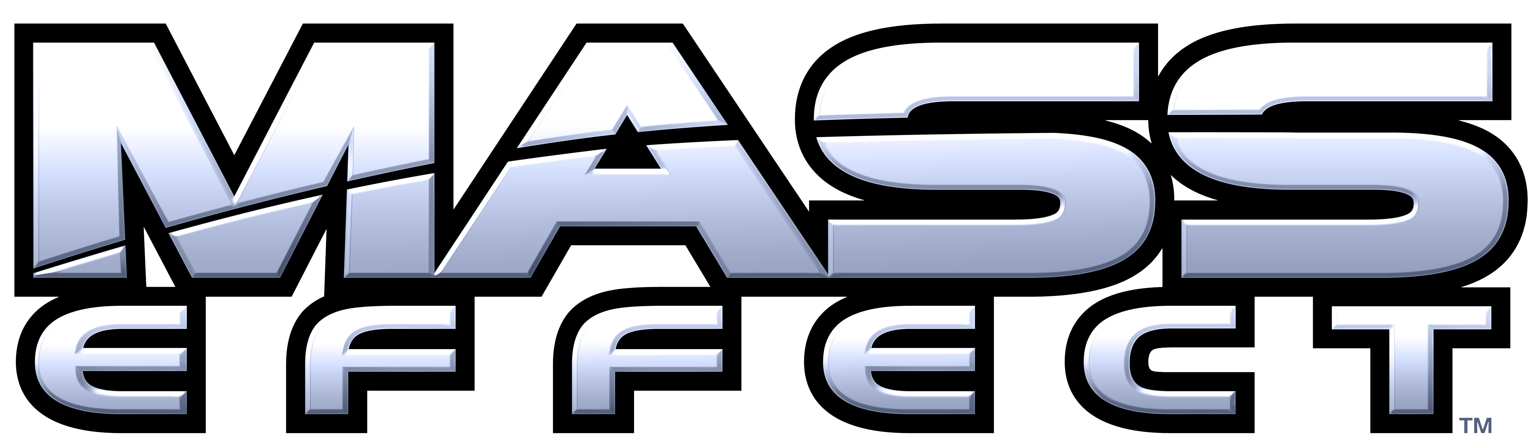 Mass Effect logo, cropped in Photoshop.